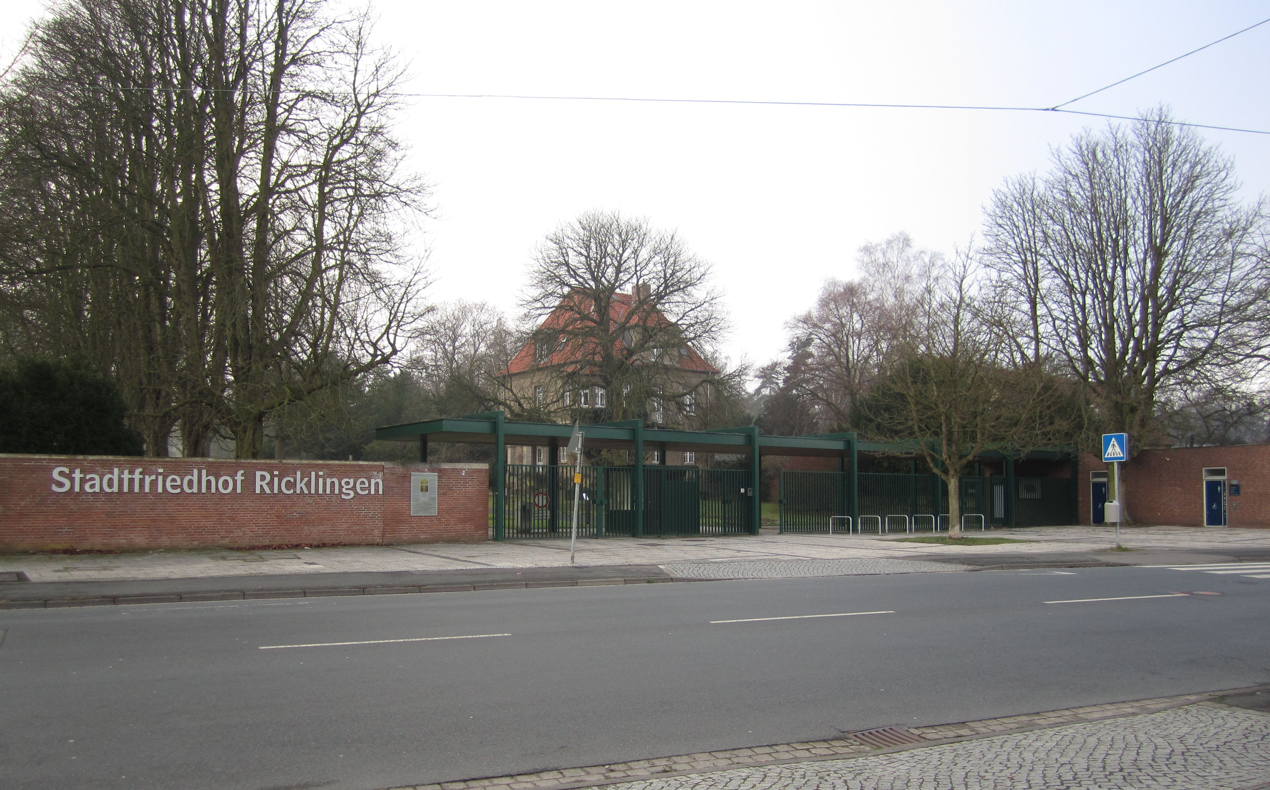 Entrance of Ricklingen cemetery, Hanover, Germany.